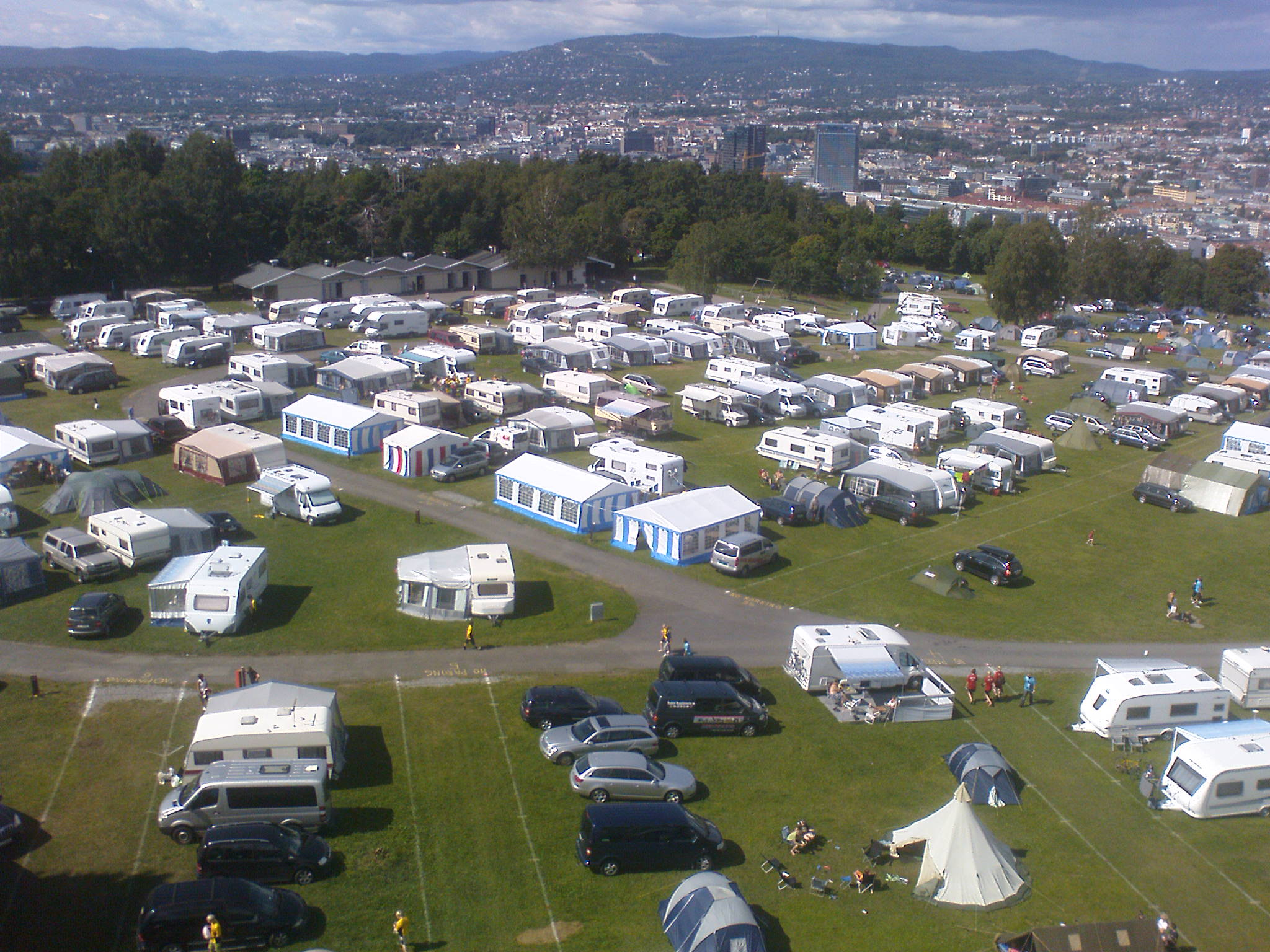 Ekeberg Camping at Ekebergsletta